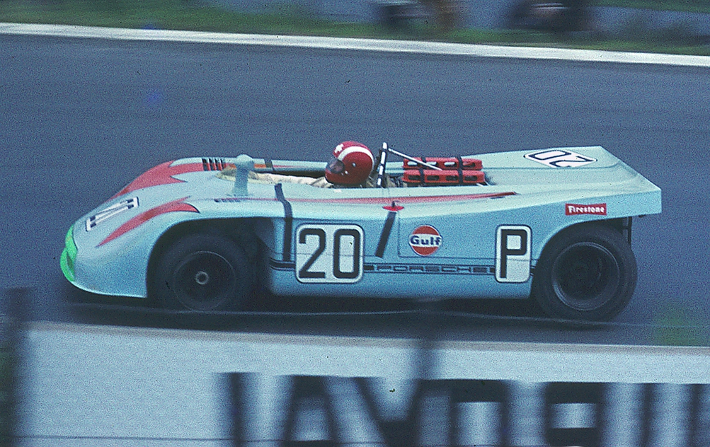 Porsche 908/3 with Joseph Siffert during 1000 km race at Nürburgring.